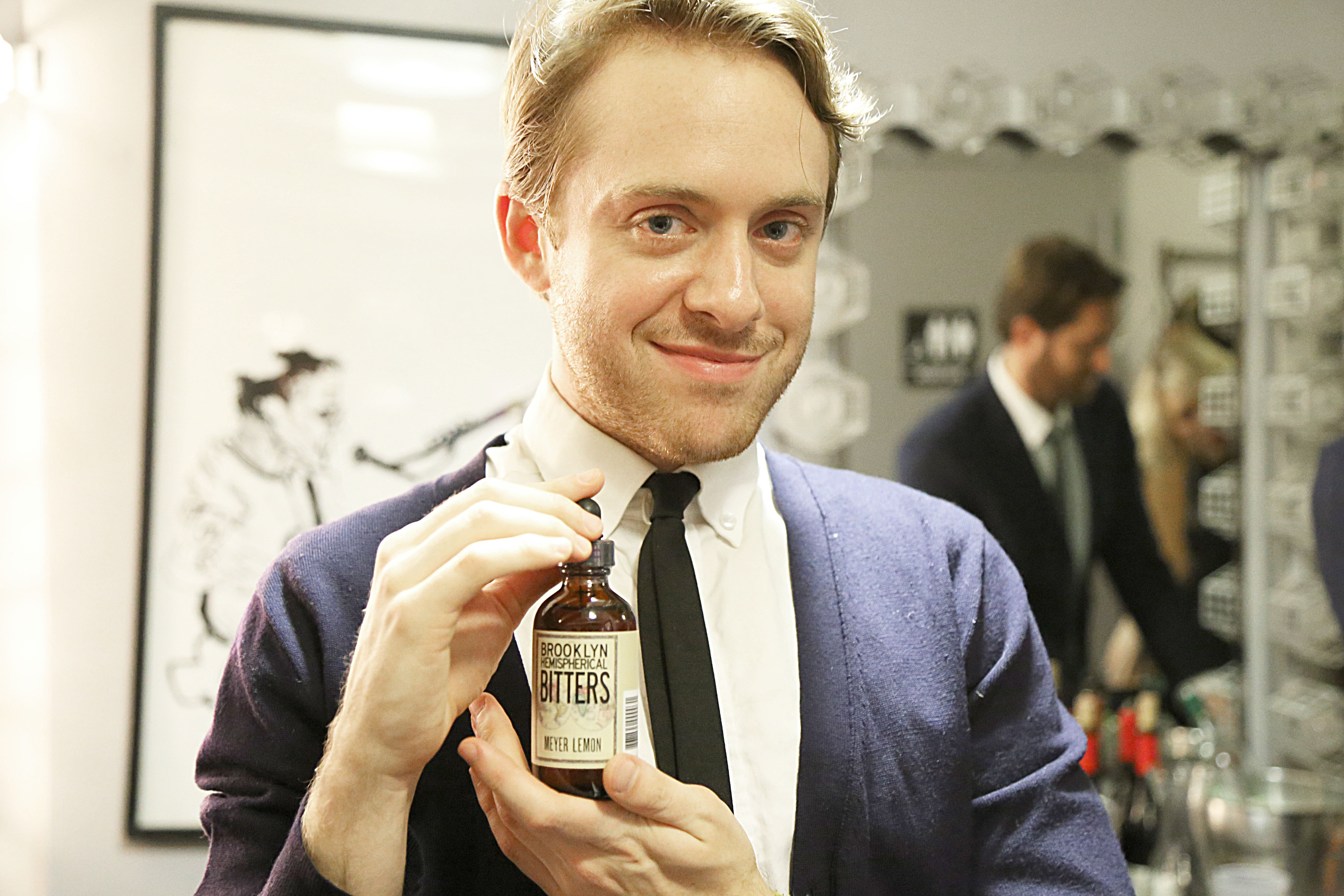 Max Jenkins on the It Gets Better Project Holiday Show 2014.